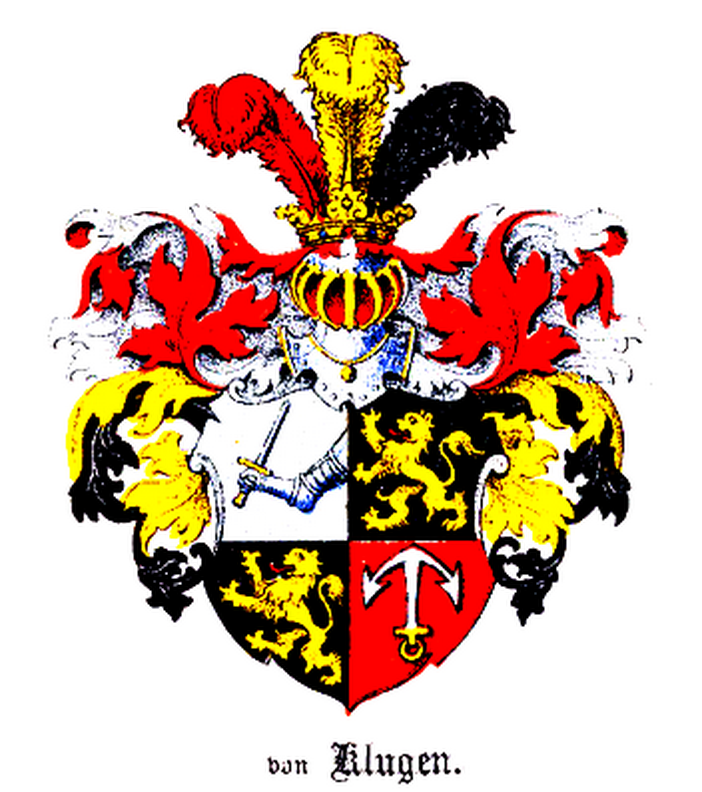 Coat of Arms of Klugen family